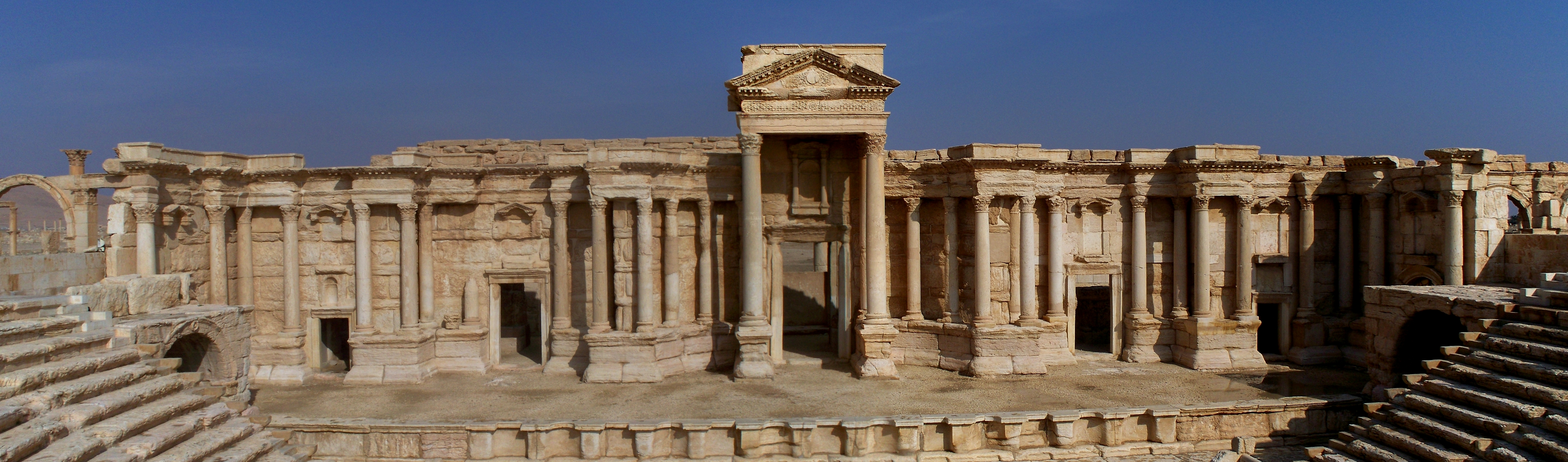 The Ancient Roman theater of Palmyra.